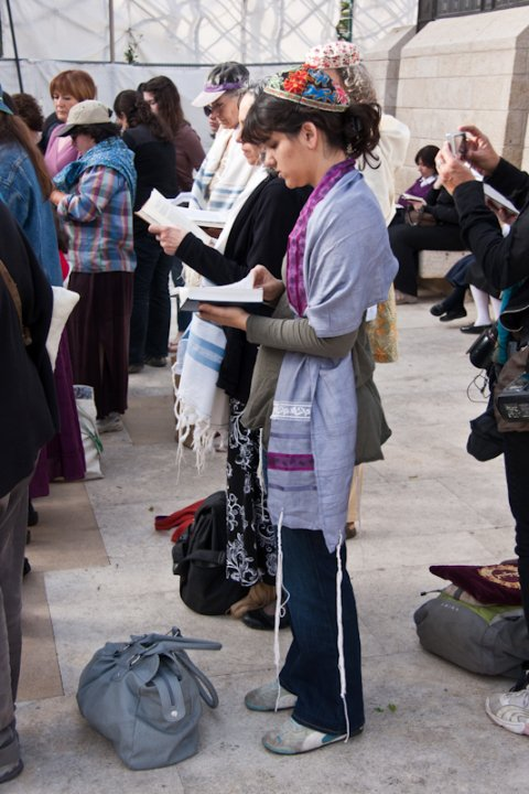 Women of the Wall Rosh Chodesh prayer at the Western Wall.